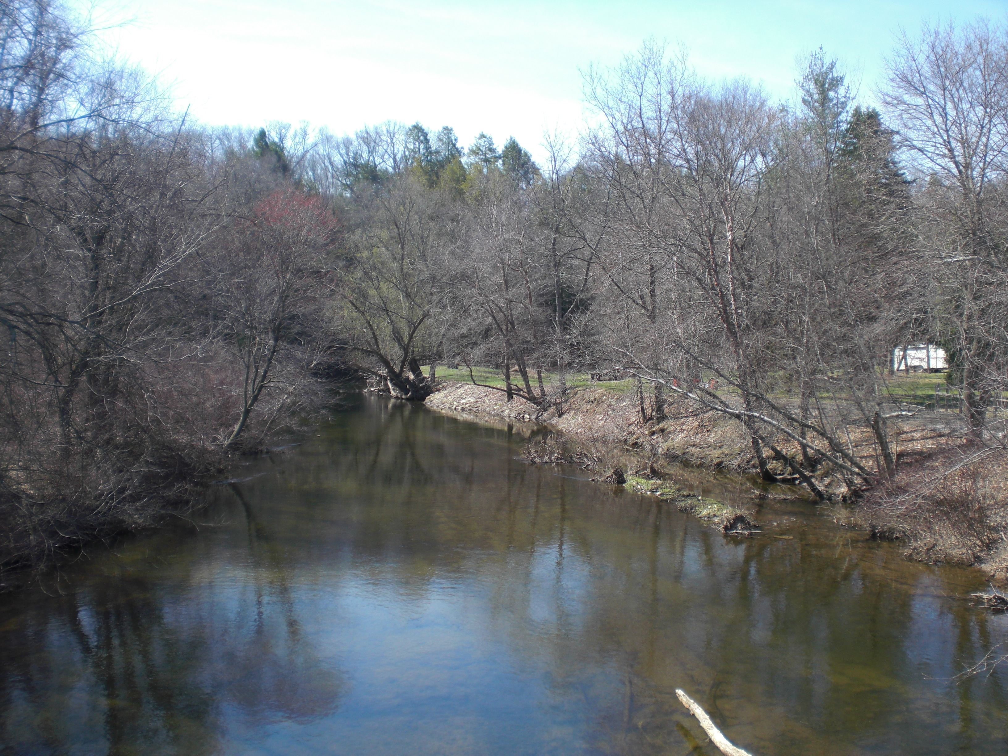 Big Wapwallopen Creek in Hollenback Township.